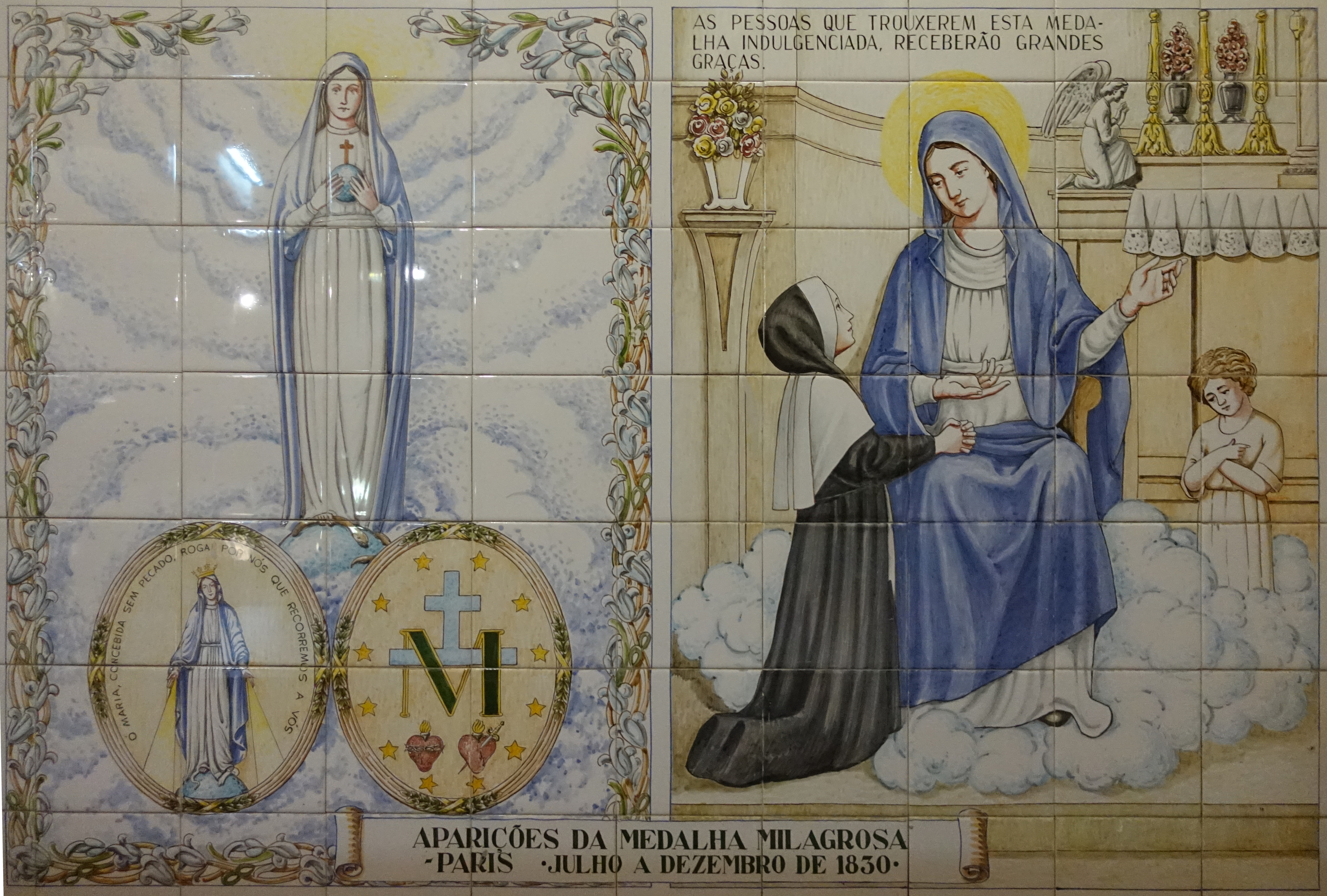 Azulejos in Santuário Nossa Senhora da Paz, Ponte da Barca, Portugal.